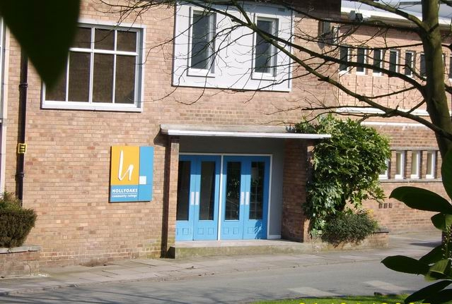 This set is used for Hollyoaks and was formerly used for Brookside and Grange Hill.